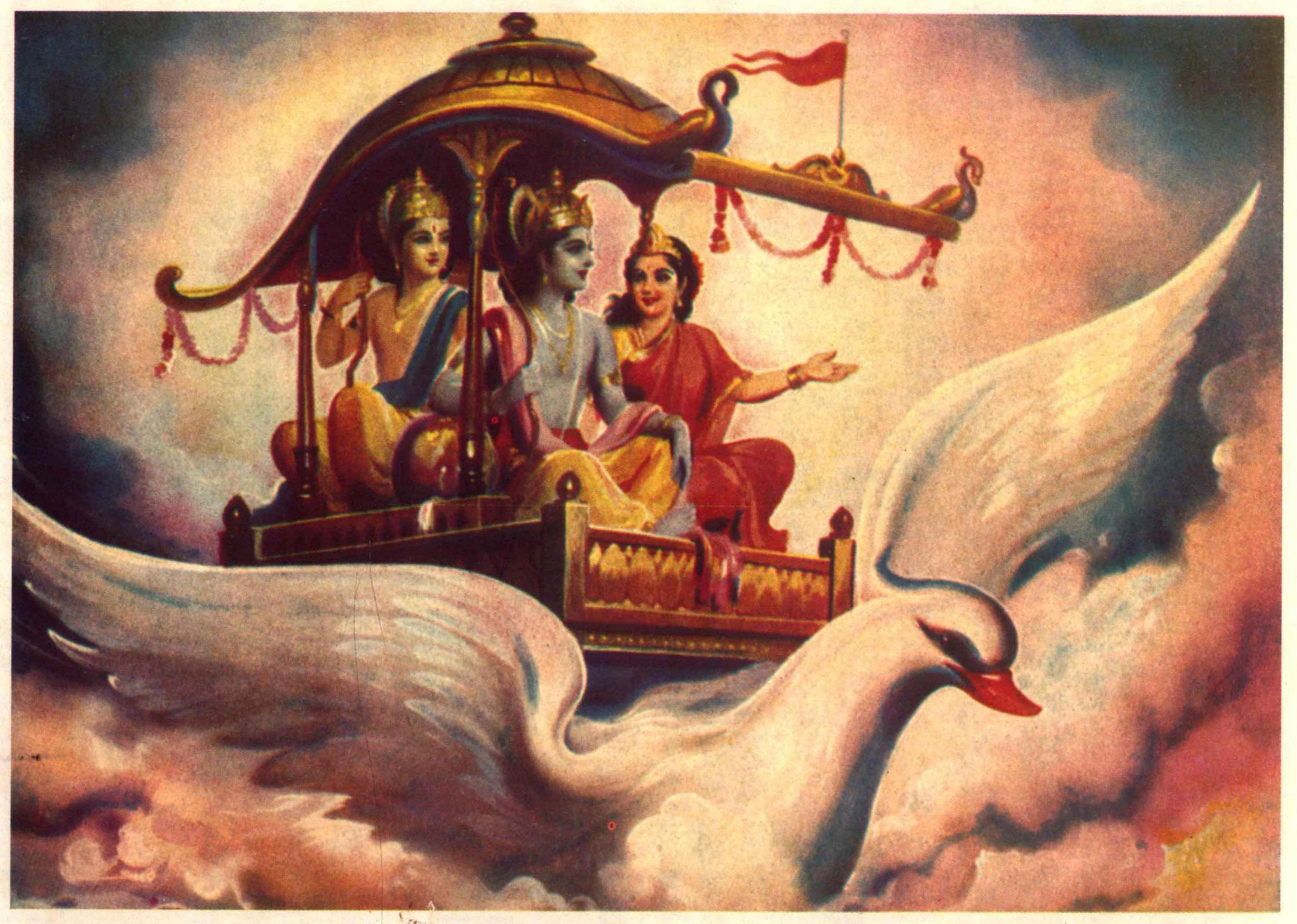 Tulsi Ramayan Tej Kumar Book Depo by MahaMuni Usage Topics Sanskrit, "महामुनि का संग्रह", "Tej Kumar Book Depot" Collection opensource Language Sanskrit Indological Books , 'Tulsi Ramayan - Tej Kumar Book Depo.pdf' Identifier TulsiRamayanTejKumarBookDepo Identifier-ark ark:/13960/t2t49xm76 Ocr language not currently OCRable Ppi 600 Scanner Internet Archive HTML5 Uploader 1.6.3